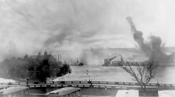 This work created by the United Kingdom Government is in the public domain. This is because it is one of the following: It is a photograph taken prior to 1 June 1957; or It was published prior to 1970; or It is an artistic work other than a photograph or engraving (e.g. a painting) which was created prior to 1970. HMSO has declared that the expiry of Crown Copyrights applies worldwide (ref: HMSO Email Reply)More information. See also Copyright and Crown copyright artistic works.